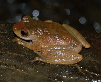 The Common Mist Frog (Litoria rheocola) of northern Australia.